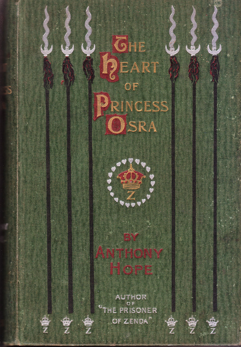 Scan of public domain book cover, The Heart of Princess Osra by Anthony Hope, published by Frederick Stokes, 1896. Scanned by User:PKM from my own collection, 2 June 2007.